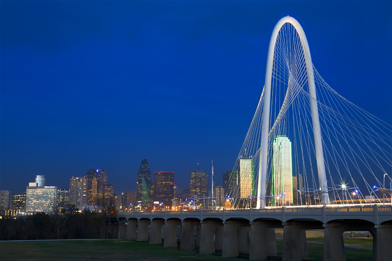 Dallas skyline featuring the Margaret Hunt Hill Bridge with Lamar-McKinney Bridge in foreground. Full resolution print available for purchase